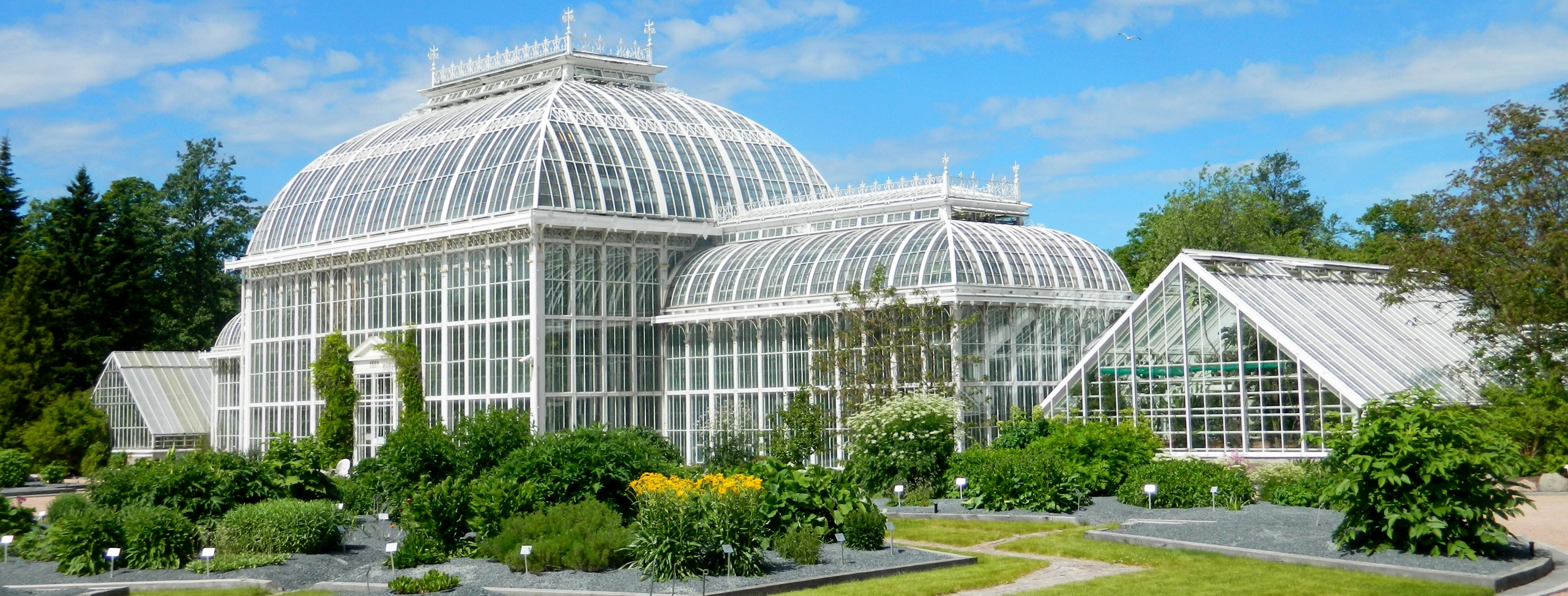 University of Helsinki Botanical Garden